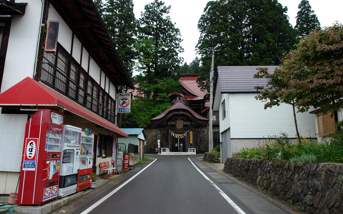 Iwanesawasanzan jinja